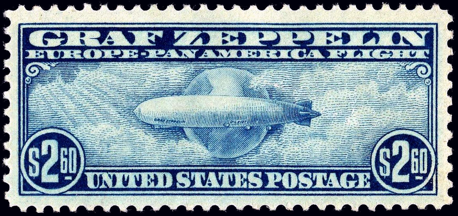 One of three 1930 Graf Zeppelin stamps; $2.60 Blue, (SCOTTS# C15)